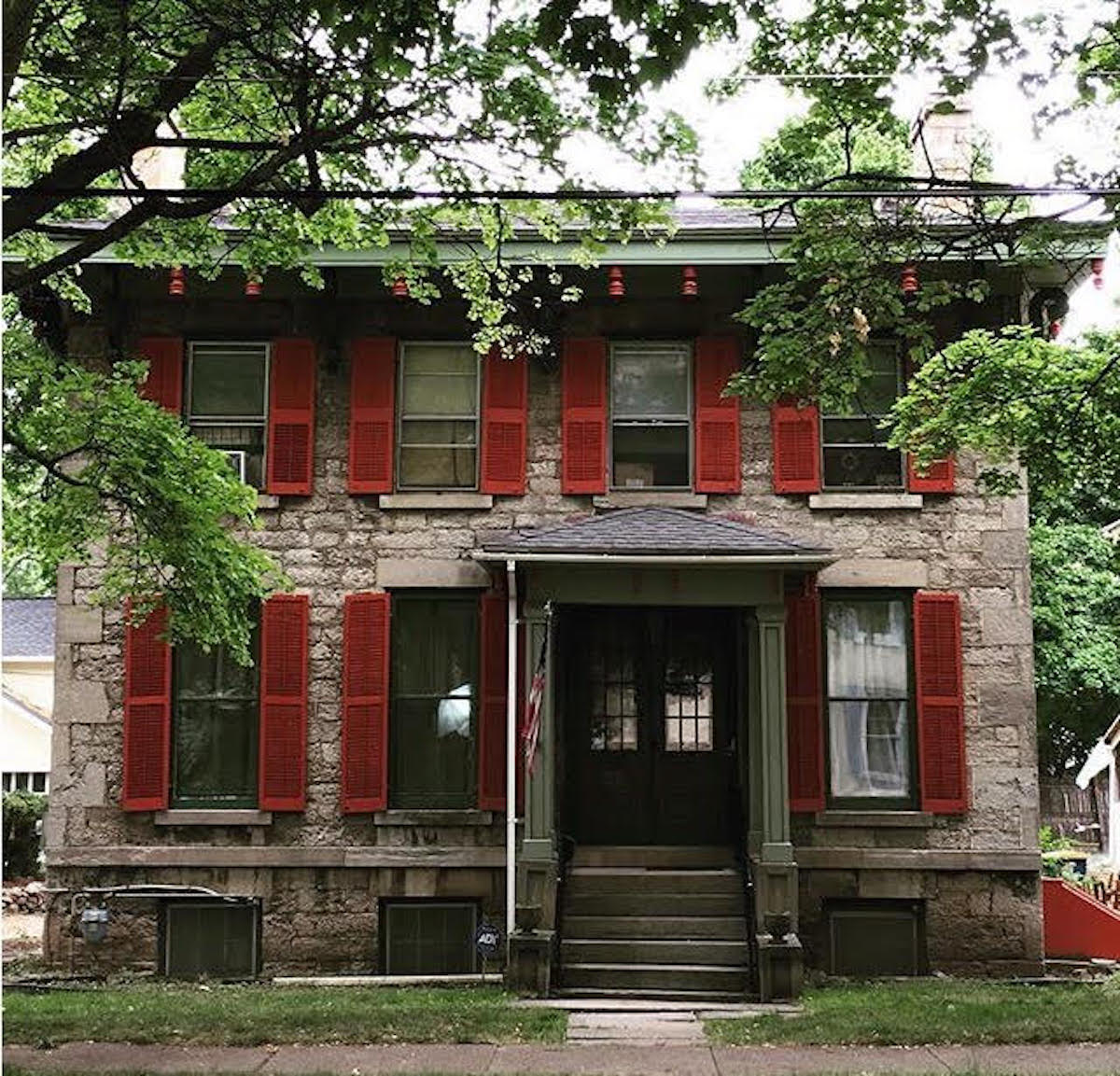 A photo of the White-Pound house for the White-Pound Wikipedia page.